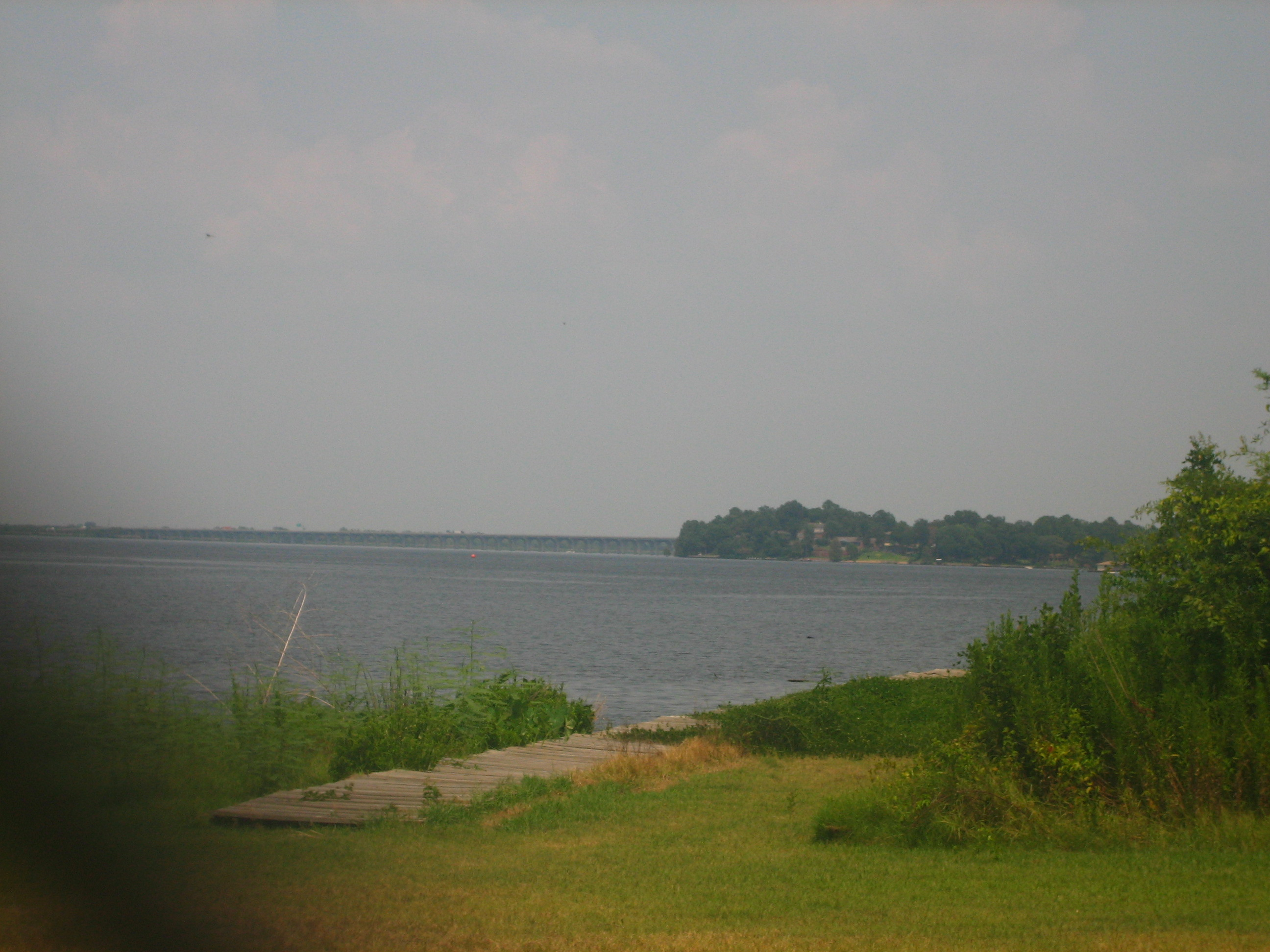 I took photo on Aug. 3, 2008.Billy Hathorn (talk) 21:57, 14 August 2008 (UTC)